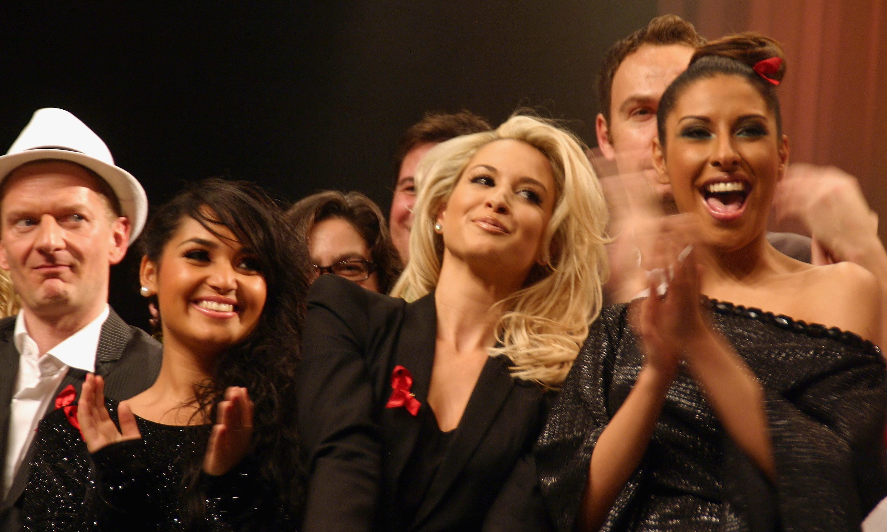 Monrose on the charity concert "Cover me" at Palladium, Cologne, Germany.